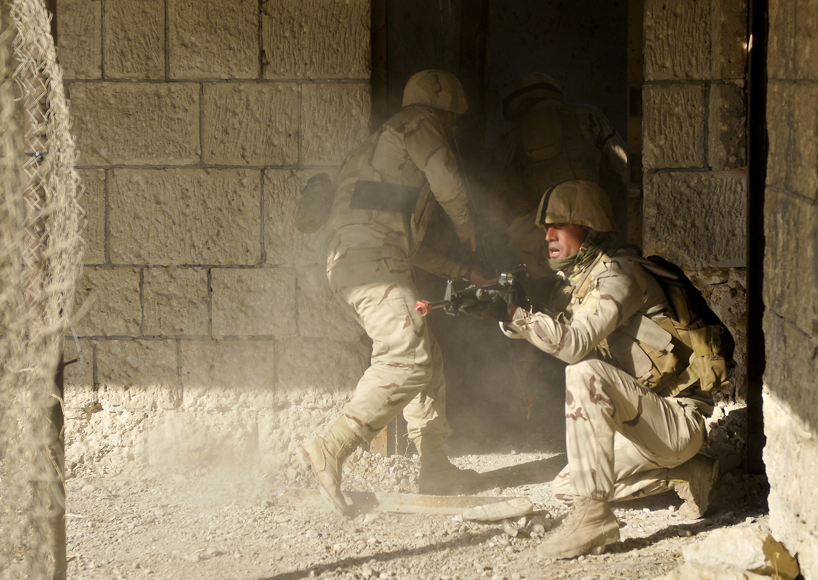 Iraqi soldiers of 1st Battalion, 11th Brigade, 3rd Iraqi Army Division, enter and clear a room during military urban operations training at Ghuzlani Warrior Training Center, Jan. 23, 2011. The month-long cycle of military exercises is part of an Iraqi-directed program, Tadreeb al Shamil, Arabic for All-Inclusive Training, preparing IA units to conduct tactical military operations and national defense. U.S. soldiers with 1st Squadron, 9th Cavalry Regiment, 4th Advise and Assist Brigade, 1st Cavalry Division, supervised, mentored and trained soldiers of 1st Bn., 11th Bde., during the training rotations at GWTC. 109th Mobile Public Affairs Detachment Photo by Sgt. Shawn Miller Date Taken:01.23.2011 Location:MOSUL, IQ Related Photos